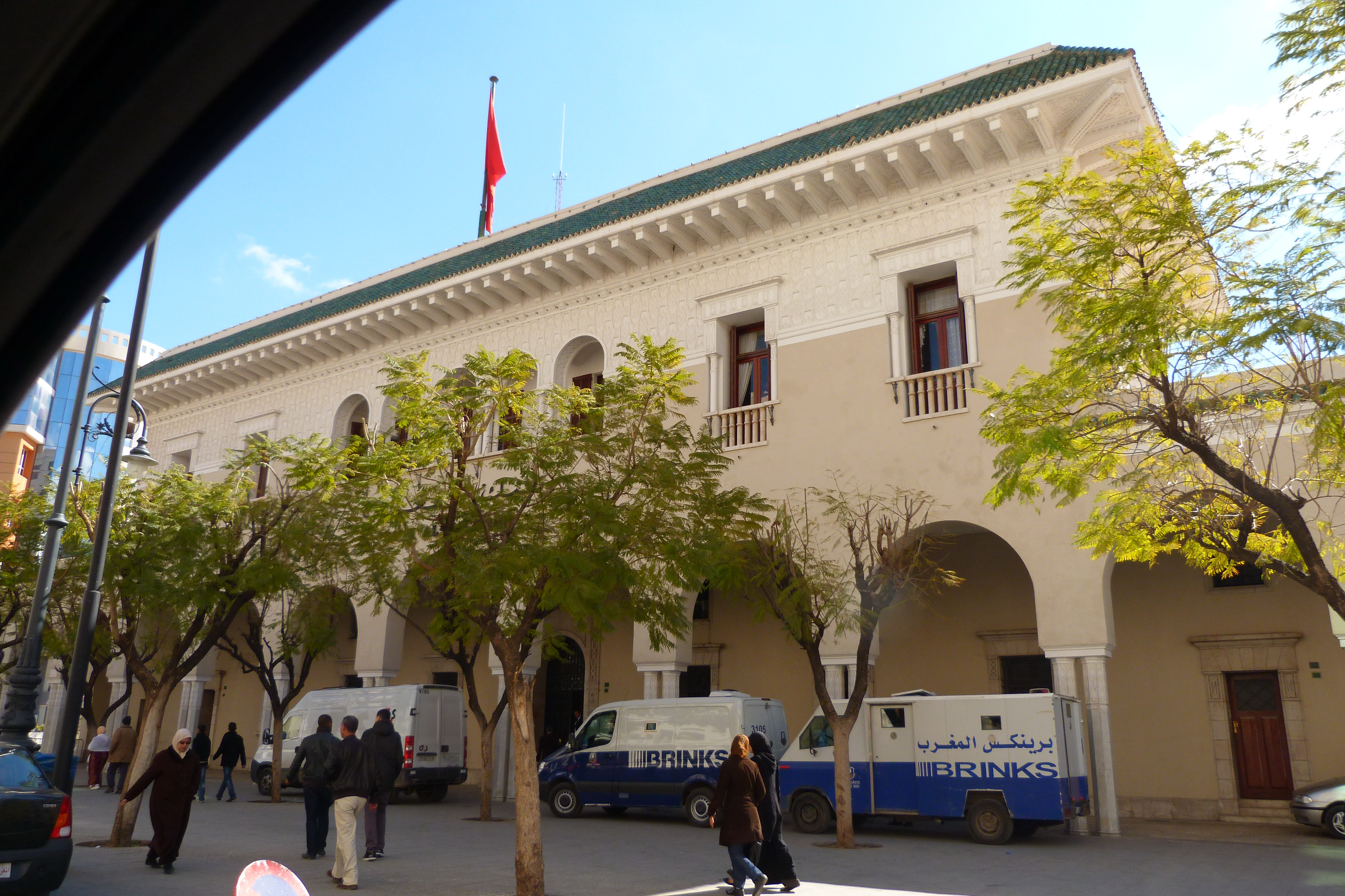 Central bank in Oujda, Morocco.